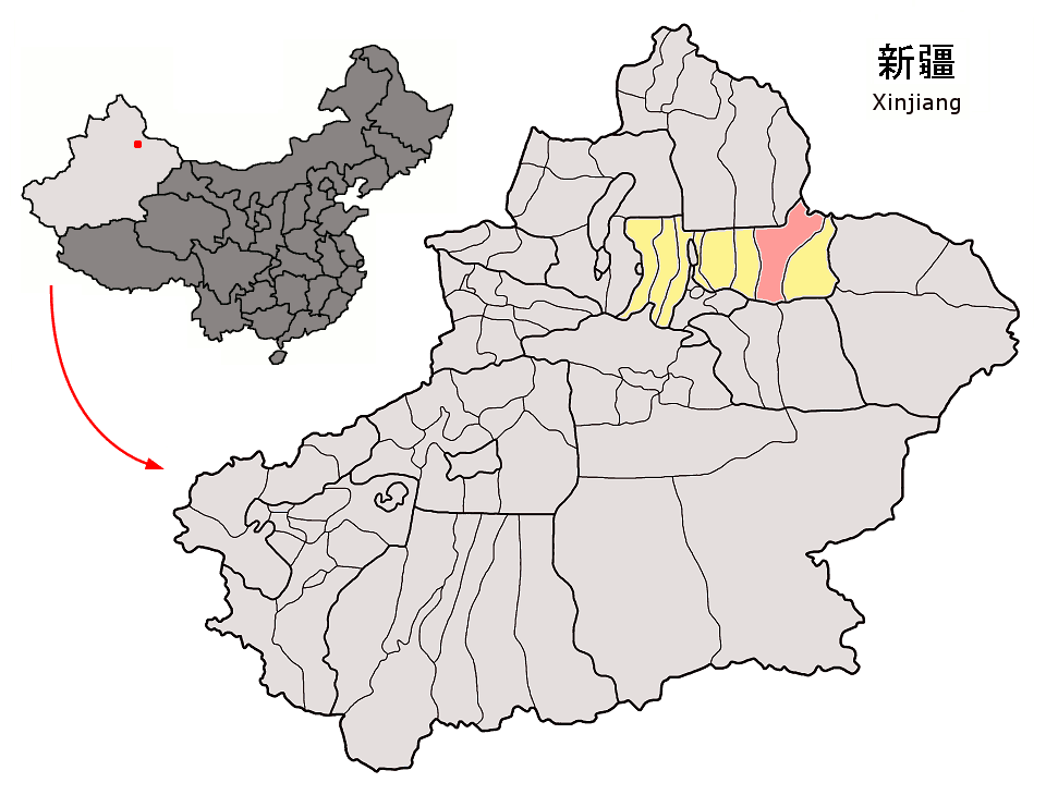 Location of Qitai County (pink) and Changji Prefecture (yellow) within Xinjiang autonomous region of China Map drawn in september 2007 using various sources, mainly : Xinjiang Uygur autonomous region administrative regions GIS data: 1:1M, County level, 1990 Xinjiang Counties map from